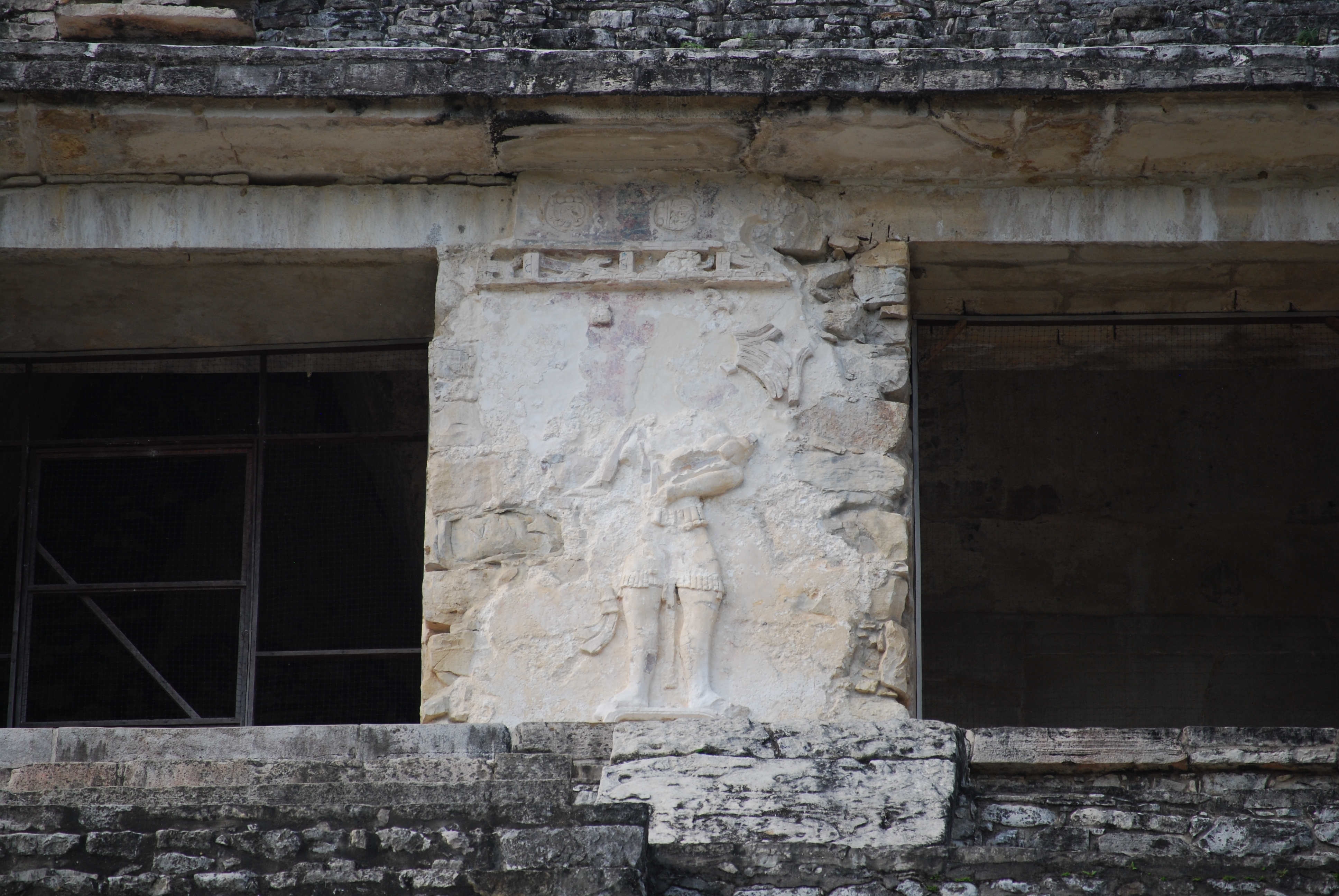 One of the panels on the upper part of the Temple of Inscriptions in Palenque, Chiapas, Mexico